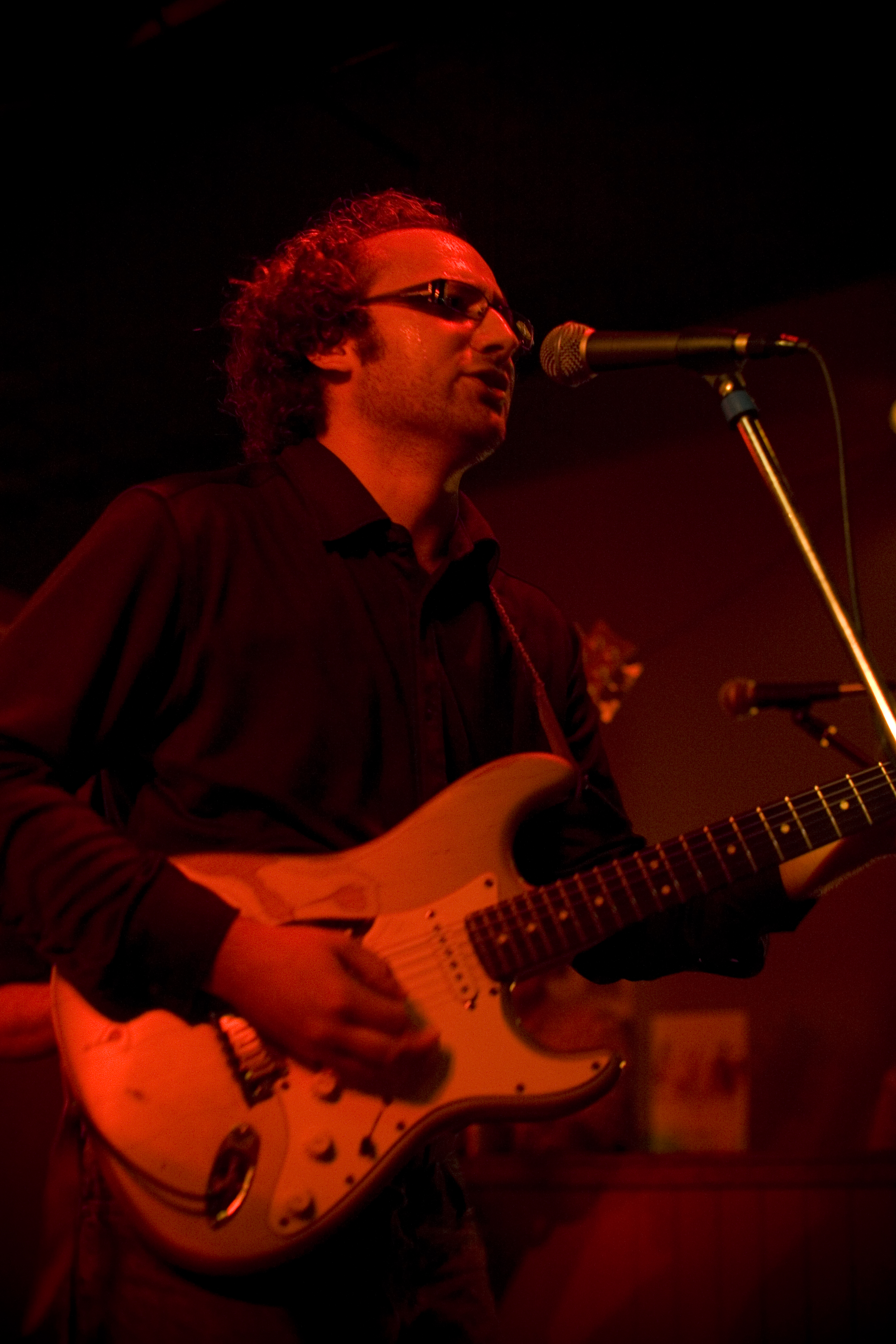 Vinnie Mele live in concert